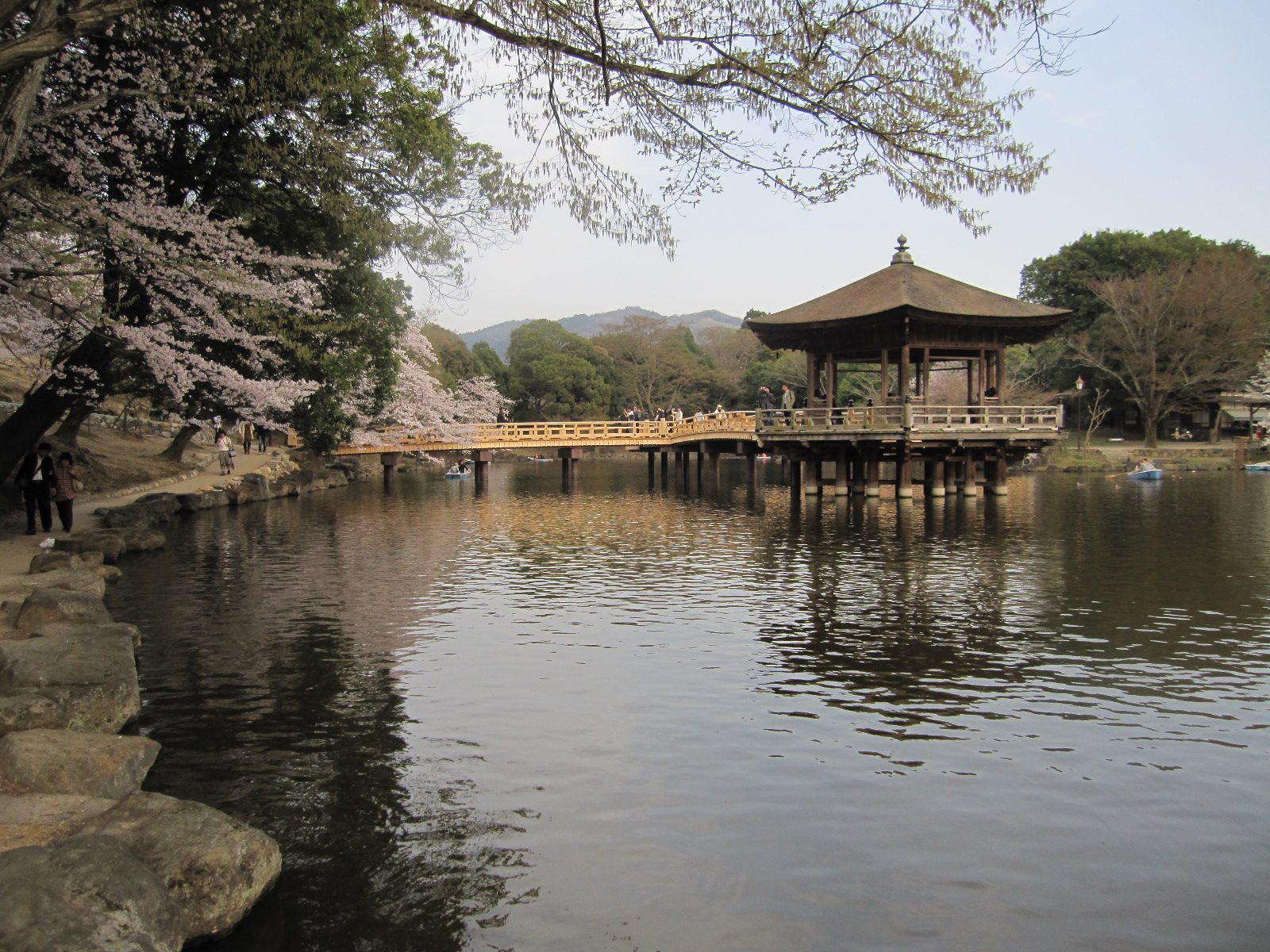 Ukimidou